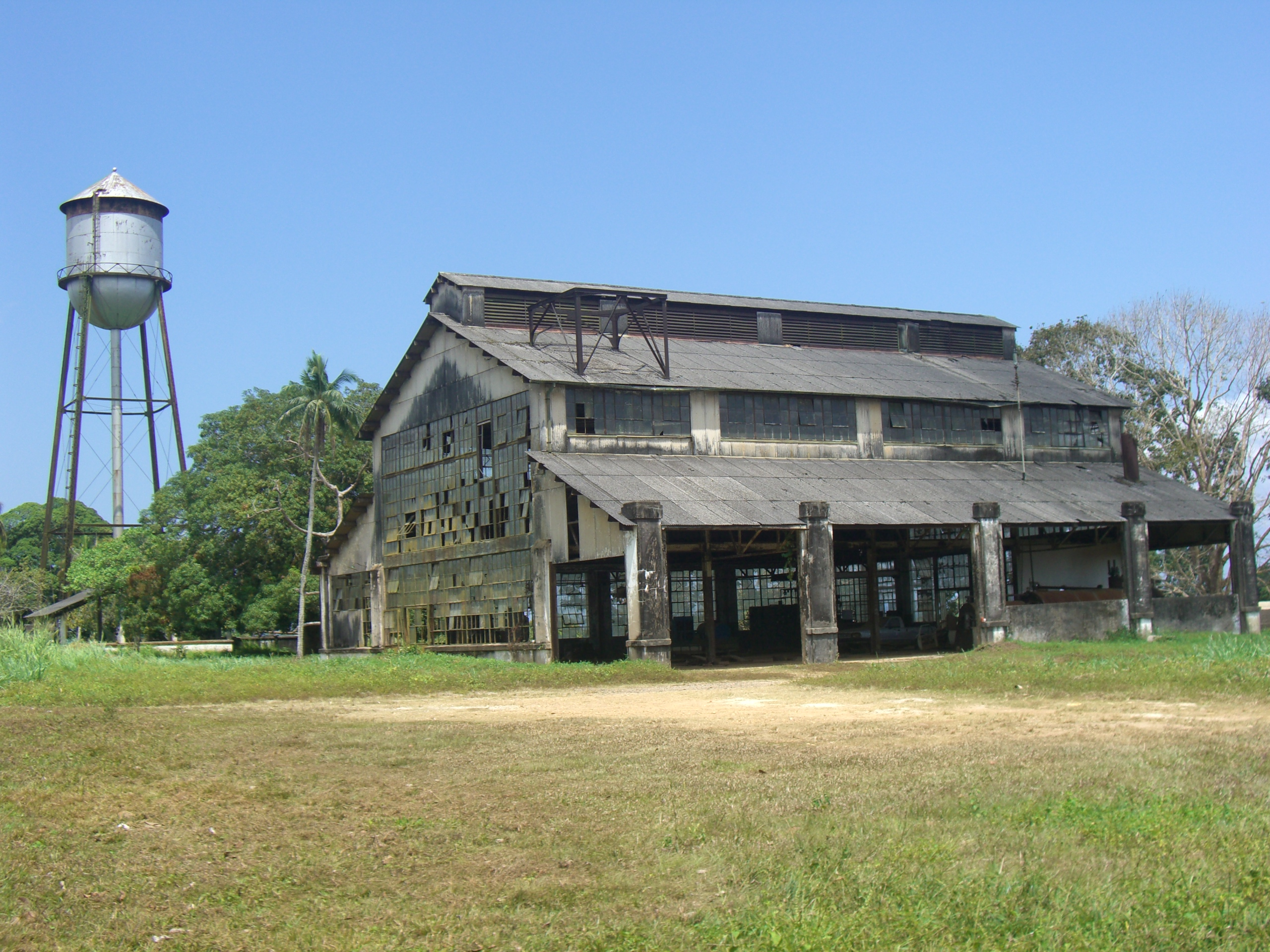 Water tower and main warehouse building in Fordlandia, Brazil.